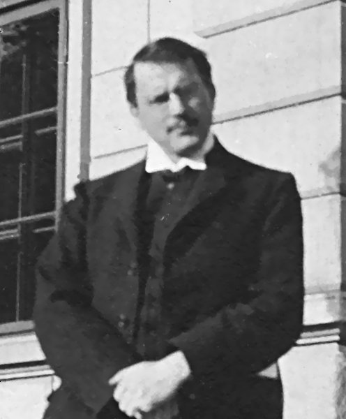 Carl Gustav Jung, full-length portrait, standing in front of building in Burghölzi, Zurich